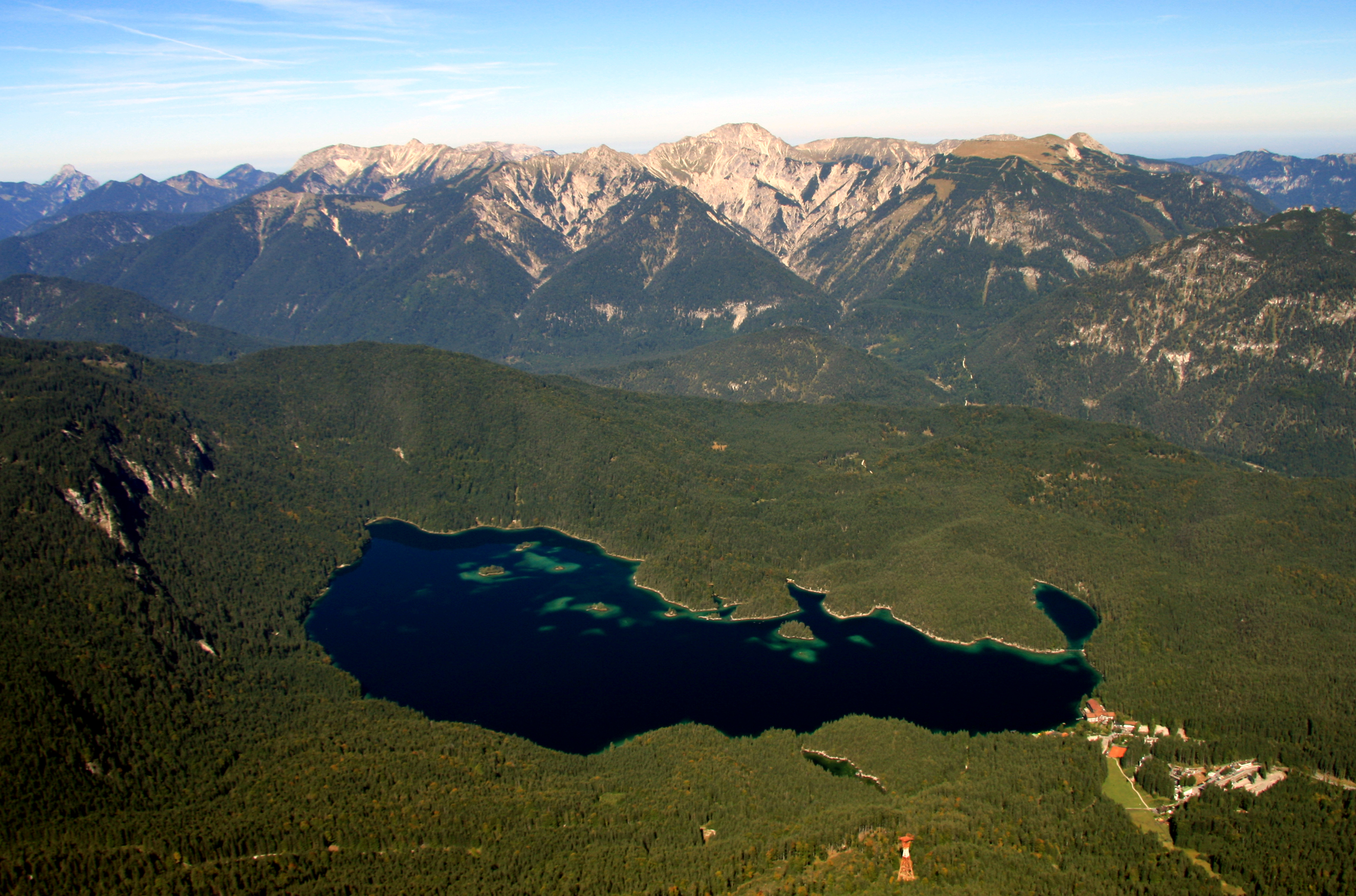 Eibsee with the Ammergau Alps in the back ground